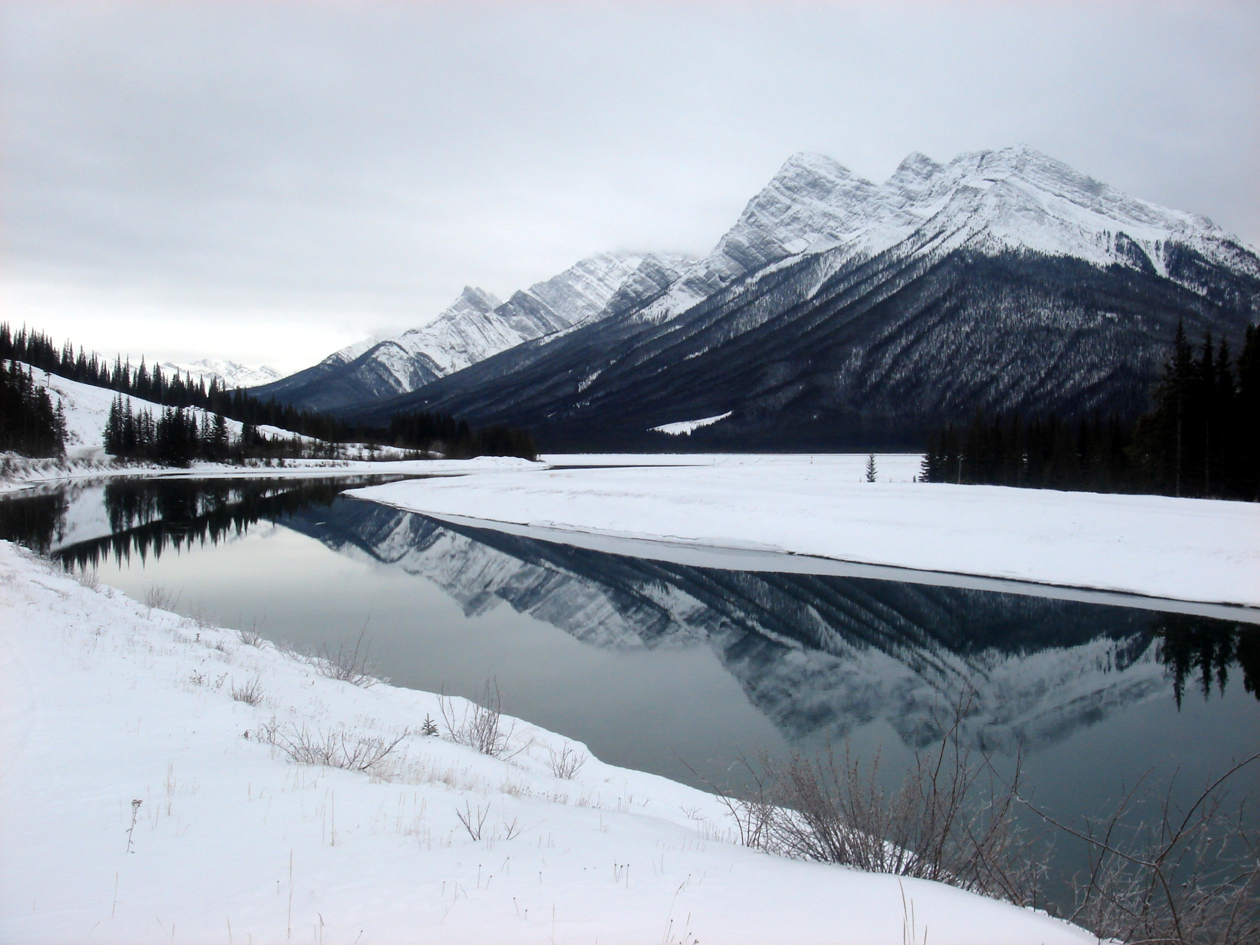 Spray Lake in Kananaskis Country, Alberta, Canada